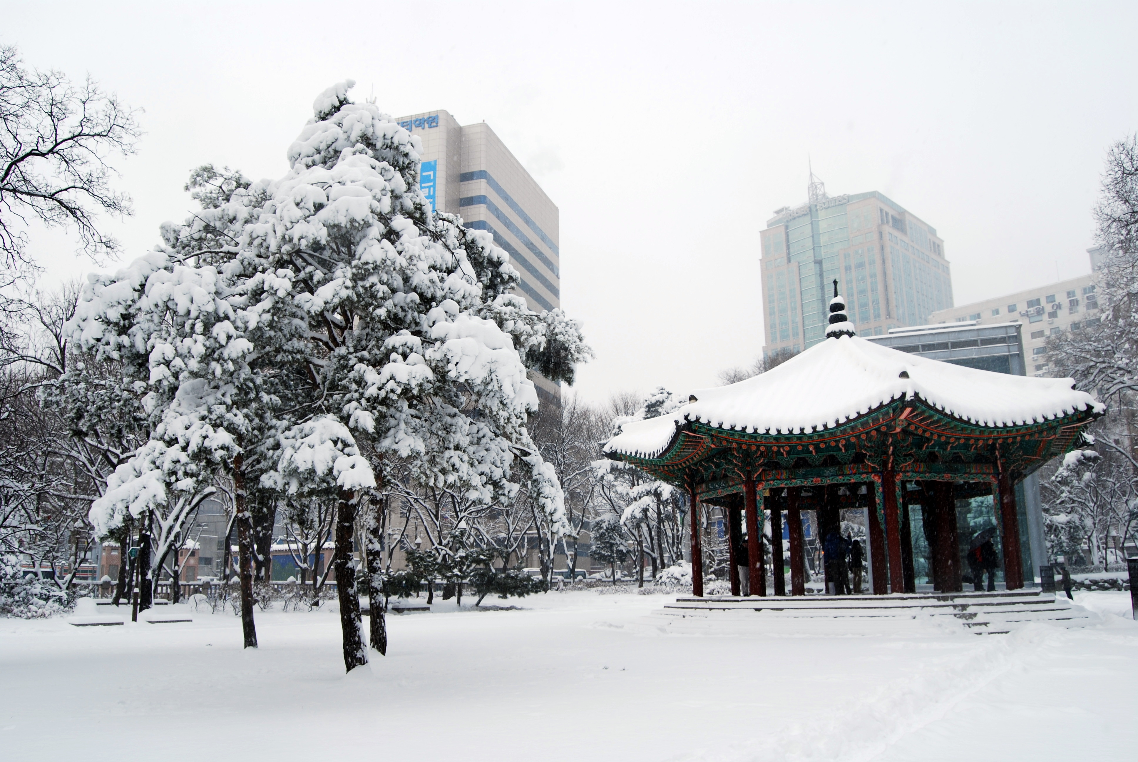 Heavy snow covered the park(Tapgol Park) in Seoul, 4 Jan. 2010.